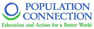 Logo for Population Connection